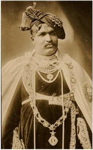 "Col. HH Maharaja Sir Shri Chhatrapati Shahu I Yashwantrao Bhonsle of Kolhapur (1874-1922)" (downloaded Jan. 2005)